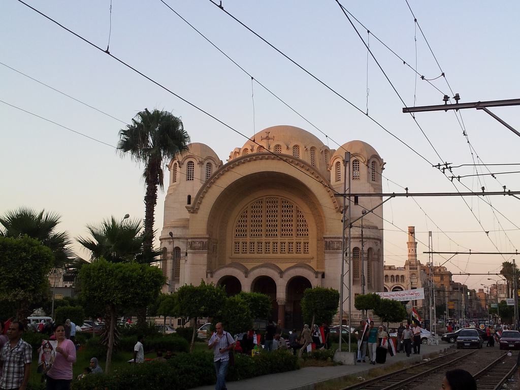 In 1906, Baron Edouard Empain, Belgian entrepreneur (1852-1929), founded the Heliopolis quarter in northeast Cairo. In November 1910 he laid the foundation stone of the Roman Catholic Basilica of Our Lady – known as the Basilica of Heliopolis or the Basilica of the Virgin Mary (l'Eglise Notre Dame d'Héliopolis). This photo shows the Basilica on a pro-army protest day in Heliopolis